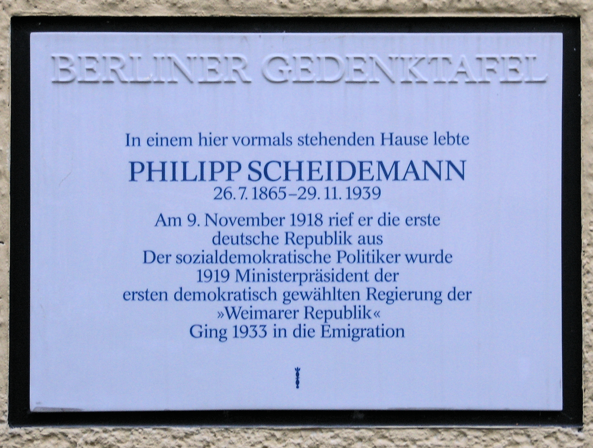 Berlin memorial plaque, Philipp Scheidemann, Lenbachstraße 6a, Berlin-Steglitz, Germany Koordinate:52°27′54″N 13°20′16″E / 52.465°N 13.33778°E